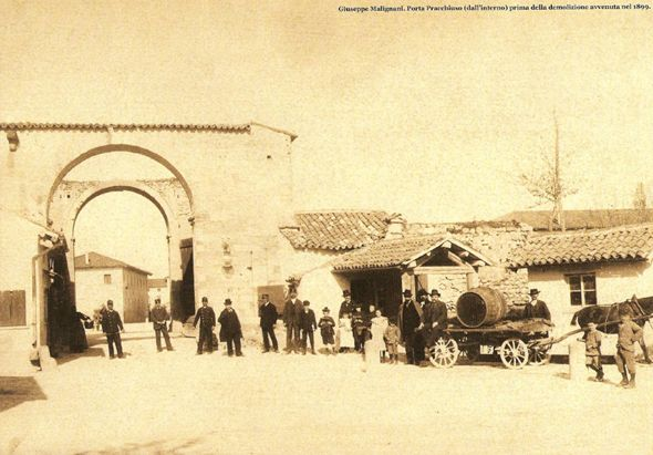 Porta Pracchiuso 2